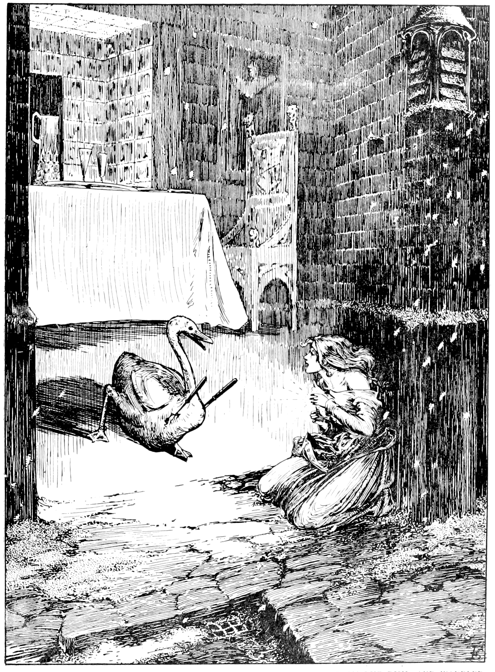 Illustration in a collection of Anderson's Fairy tales.